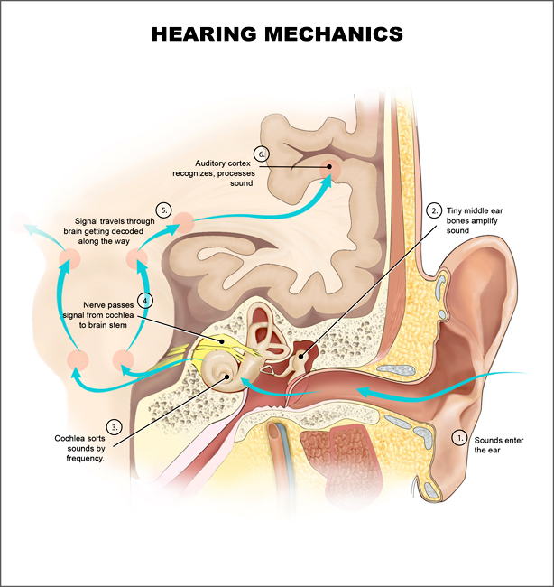 Steps involved in hearing speech: Sound signals travel from the ear to the brain where they are recognized and decoded, as detailed in the illustration.